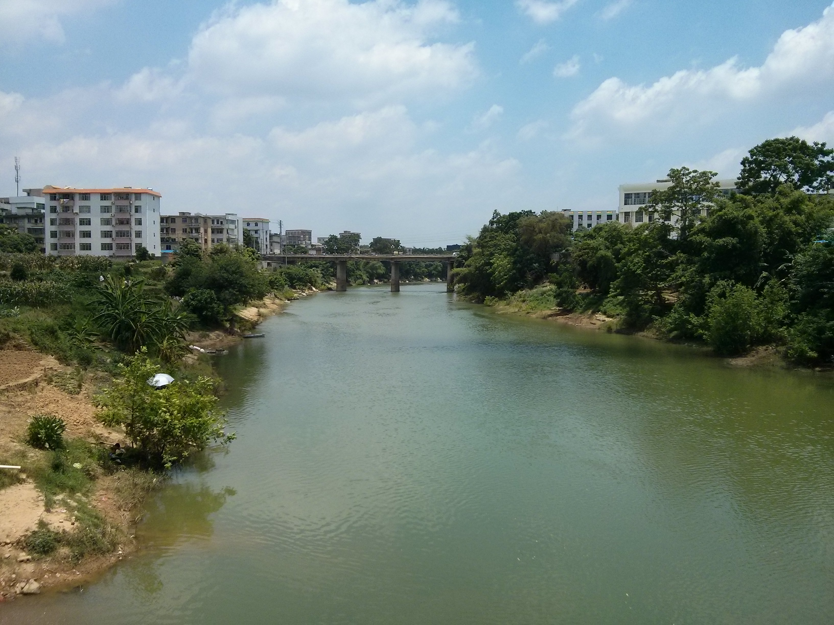 Wu`ming Bridge